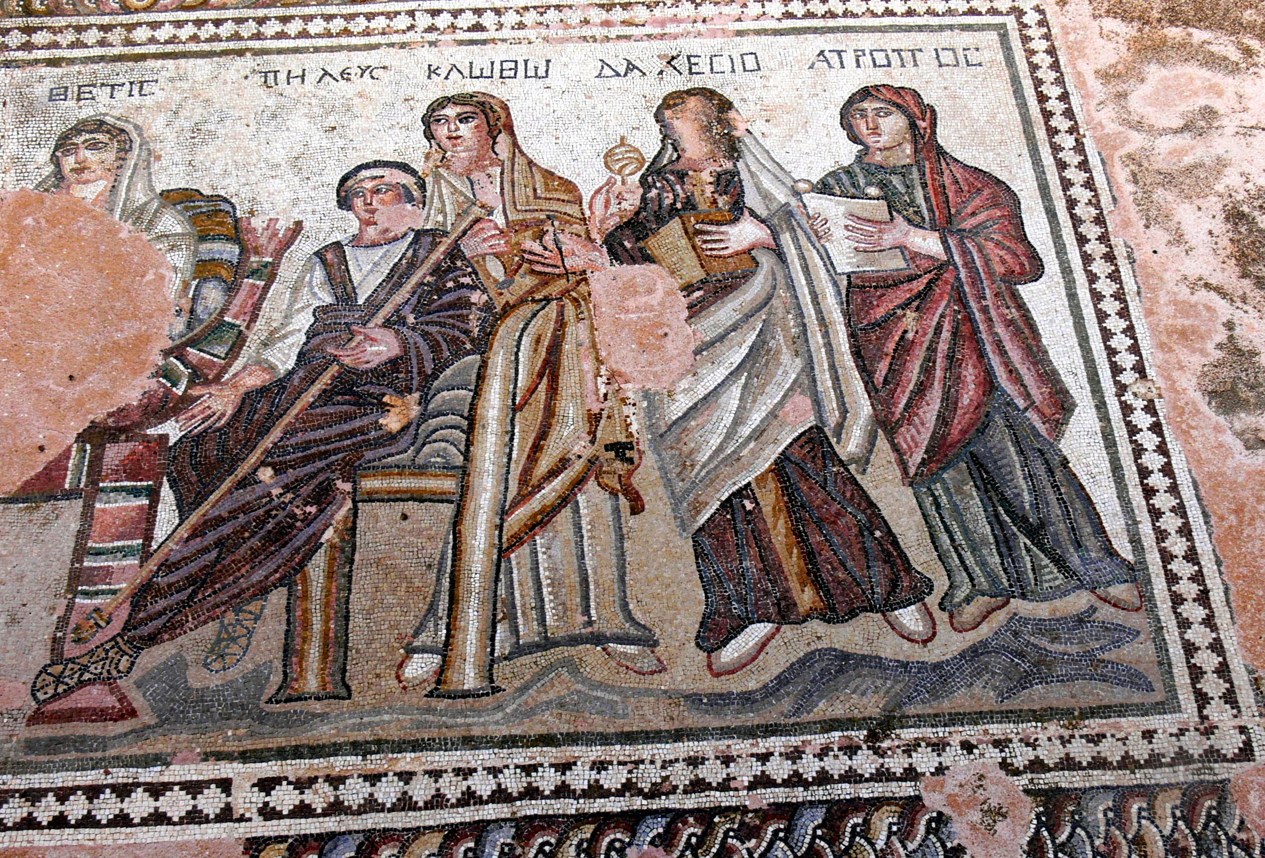 Paphos Archaeological Park. House of Theseus: Mosaic of the bath of Achilles - King Peleus, Achilles' father, and the three Moirae Klotho, Lachesis and Atropos.